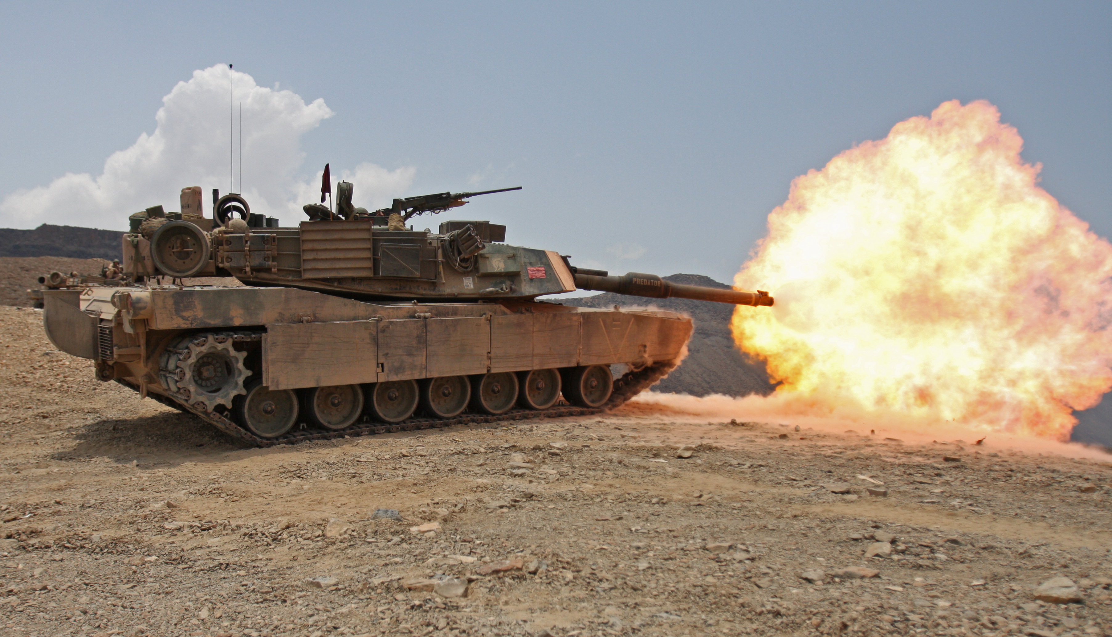 Marines from Tank platoon, 24th Marine Expeditionary Unit (24th MEU), cross a live fire range using M1A1 Abrams tanks alongside the French Foreign Legion's ERC90 Light Armored Vehicles from the 13th Demi-Brigade in Djibouti. Marines assigned to 24th MEU performed a series of sustainment and joint exercises alongside French military service members. The 24th MEU is on a seven-month deployment as part of the Nassau Amphibious Ready Group.